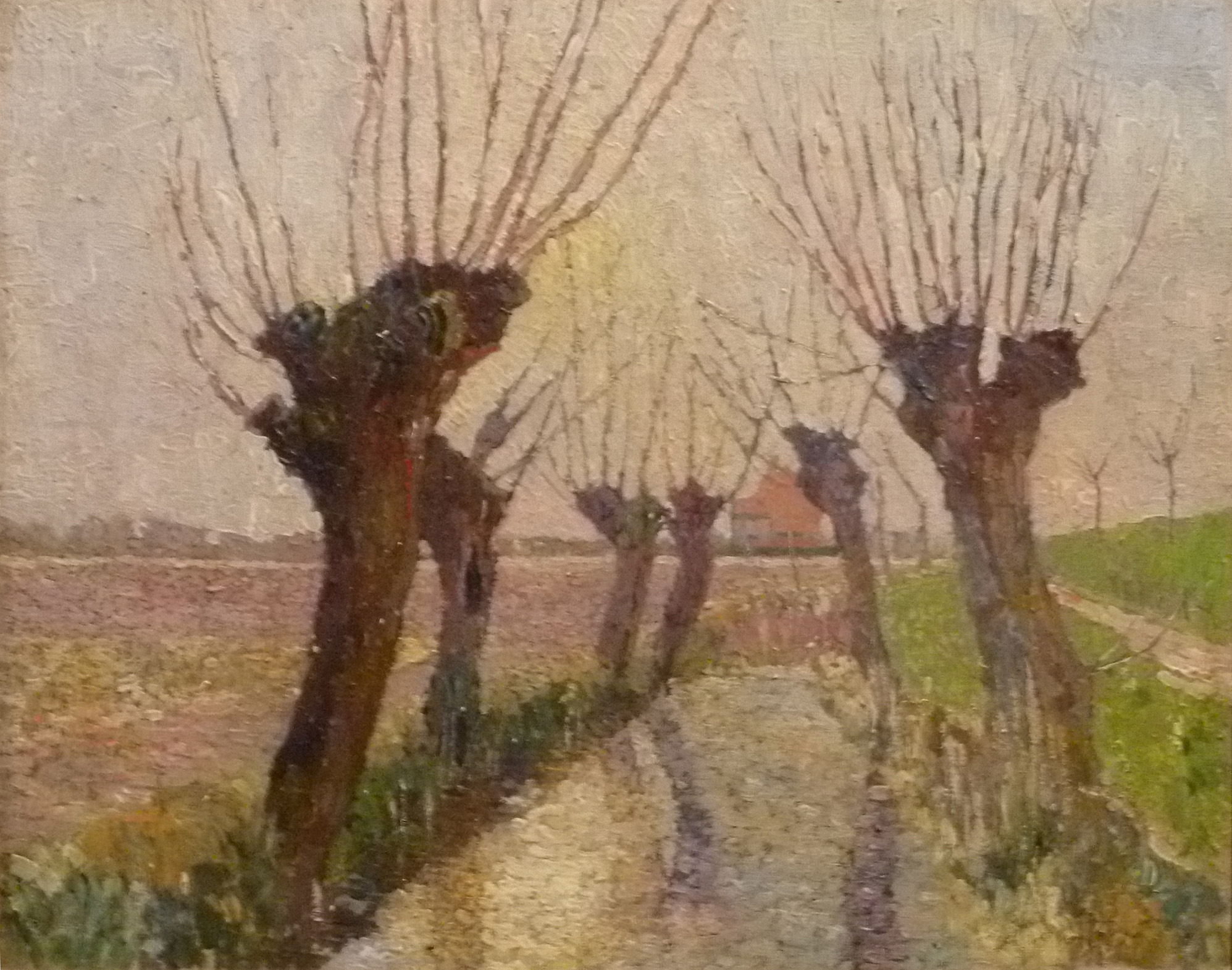 "The willows (Knocke)", oil on canvas (37.5 x 47 cm) by the Belgian painter Modest Huys; private collection